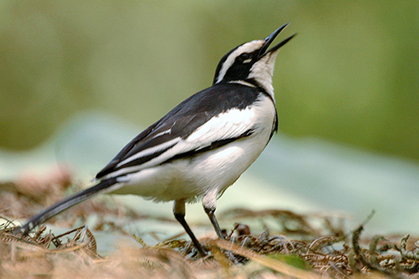 Uganda African Pied Wagtail (Motacilla aguimp)